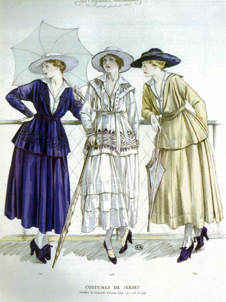 Illustration showing three women in day outfits by "Gabrielle Channel" (sic) consisting of belted tunic jackets and full jersey skirts for March, 1917